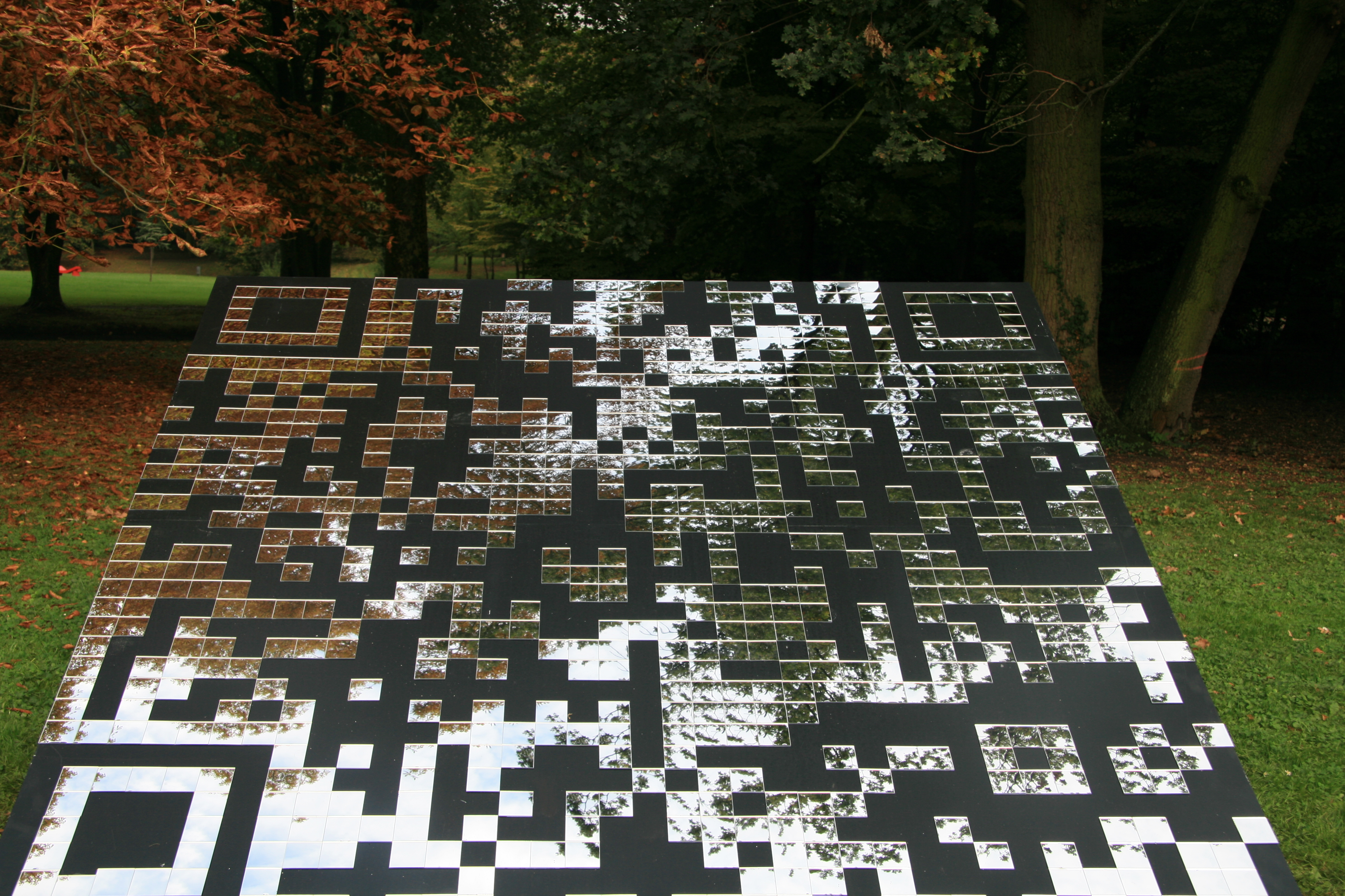 exhibition view